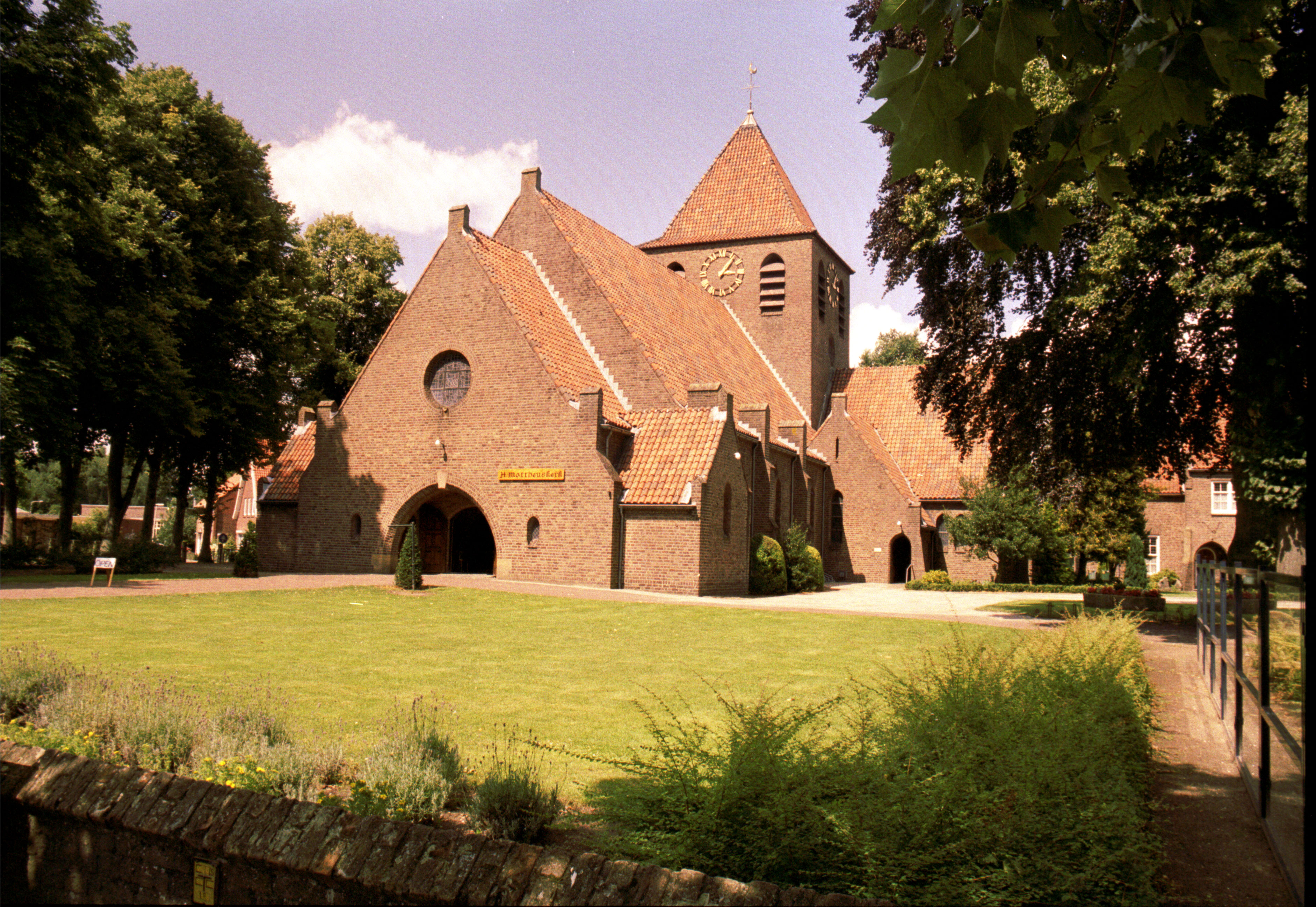 The church of St Matthew in Eibergen, the Netherlands